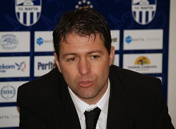 Dragan Skocic - Football Coach